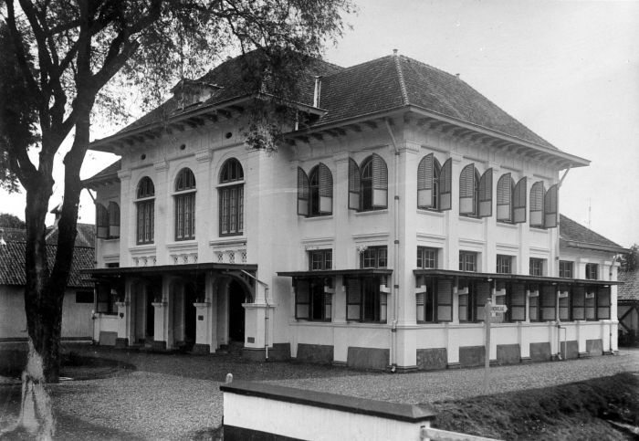 Town Hall, Makassar